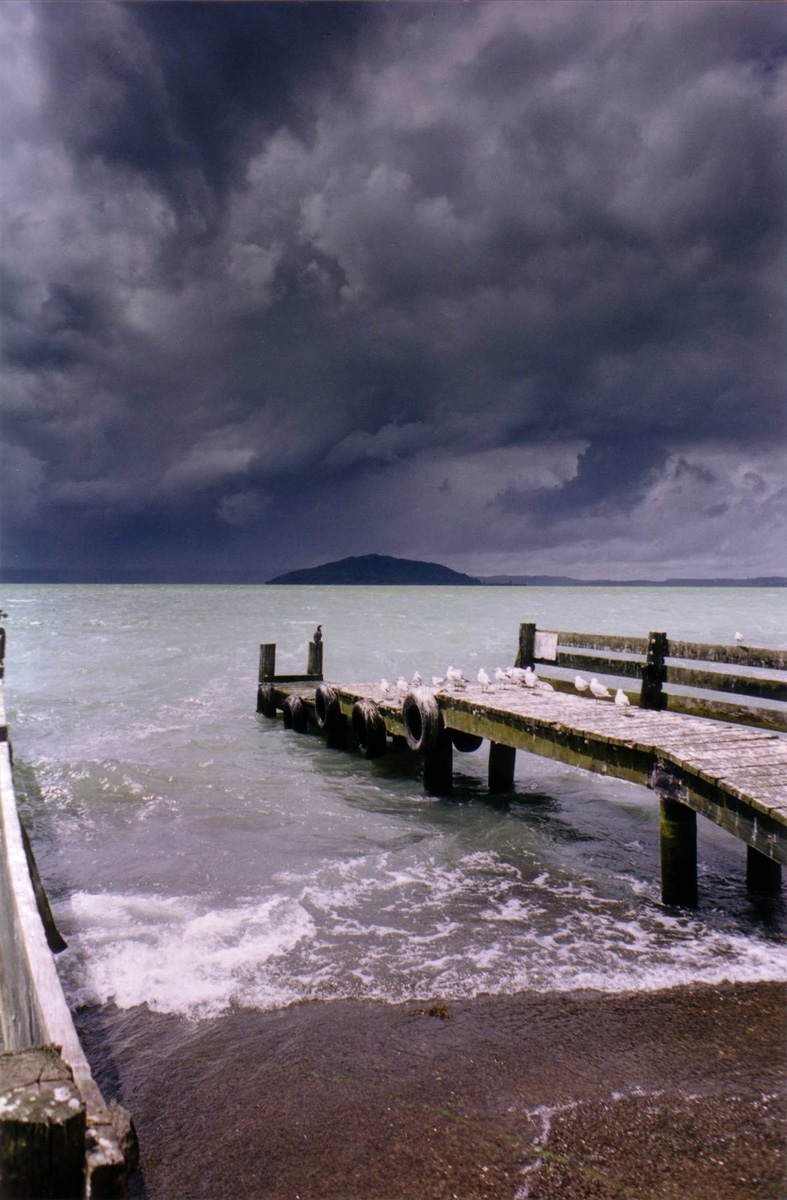 Storm clouds gathering over Mokoia Island in Lake Rotorua, New Zealand. Photograph taken from the southern shore of the lake in February 2000 by James Dignan. Category:Taupo Volcanic Zone